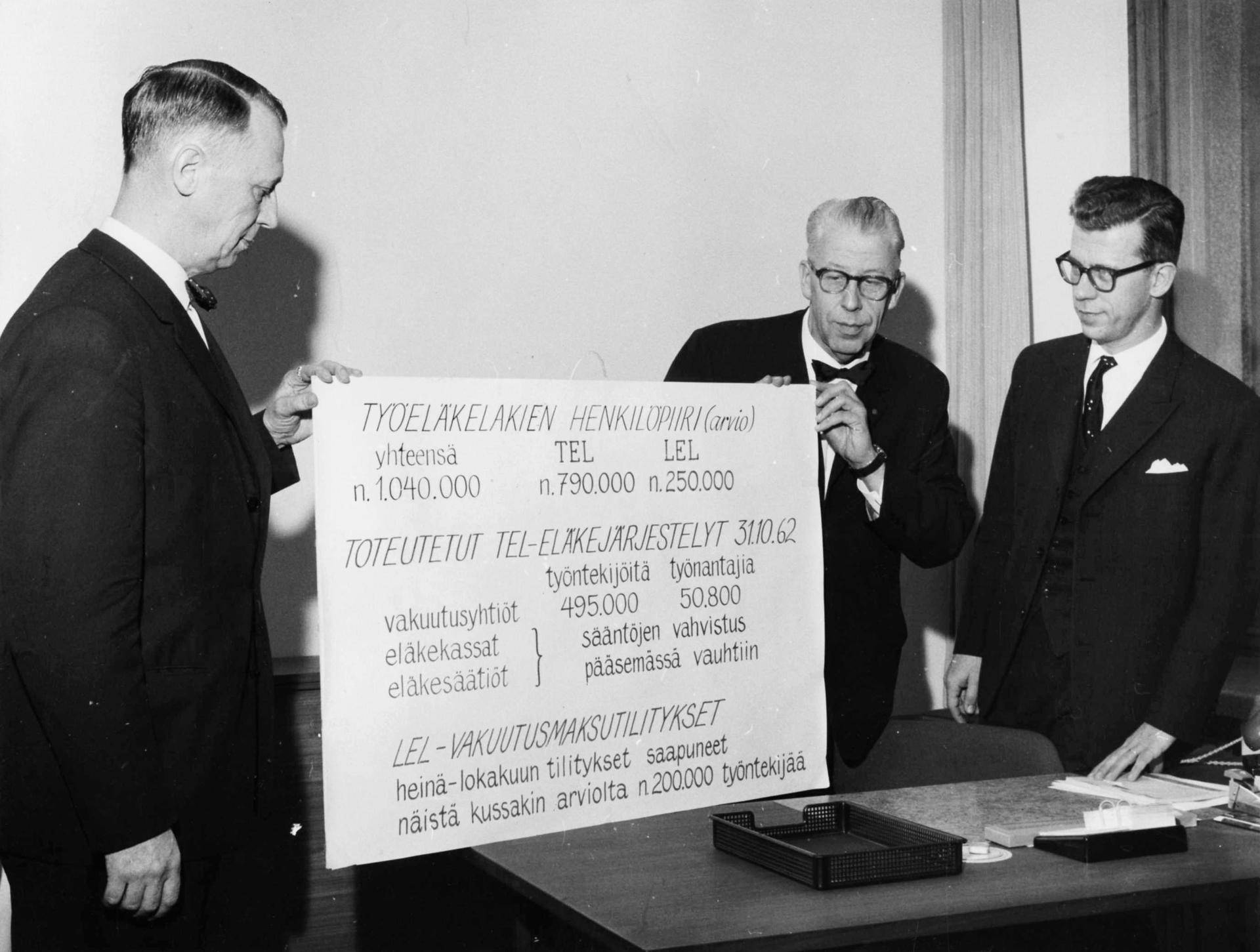 Eläketurvakeskuksen toimitusjohtaja Tauno Jylhä (kesk.) esittelemässä uusien eläkelakien vaikutuksia.